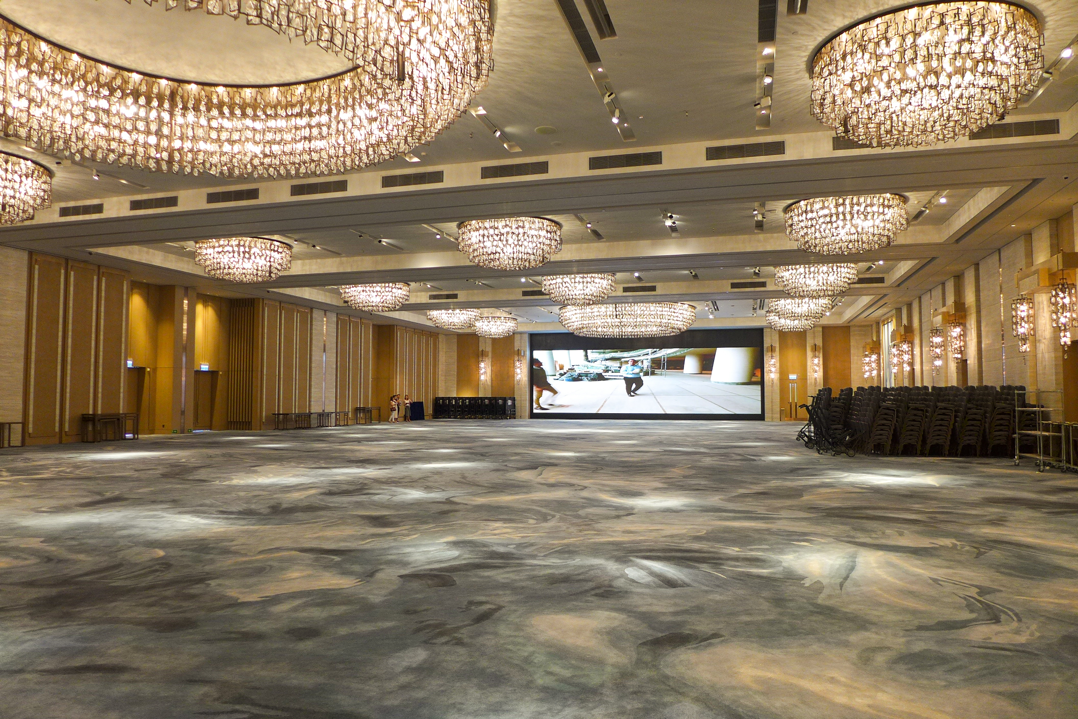 Kerry Hotel Hong Kong Level 2 Grand Ballroom